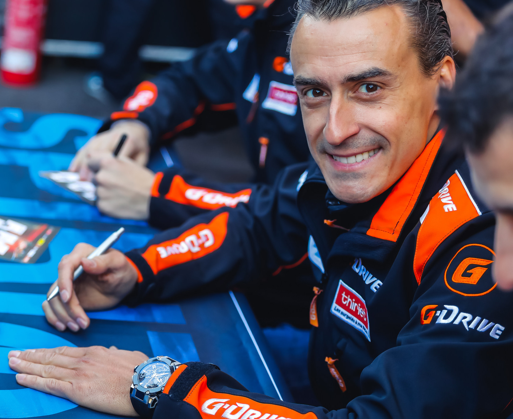 Roman Rusinov